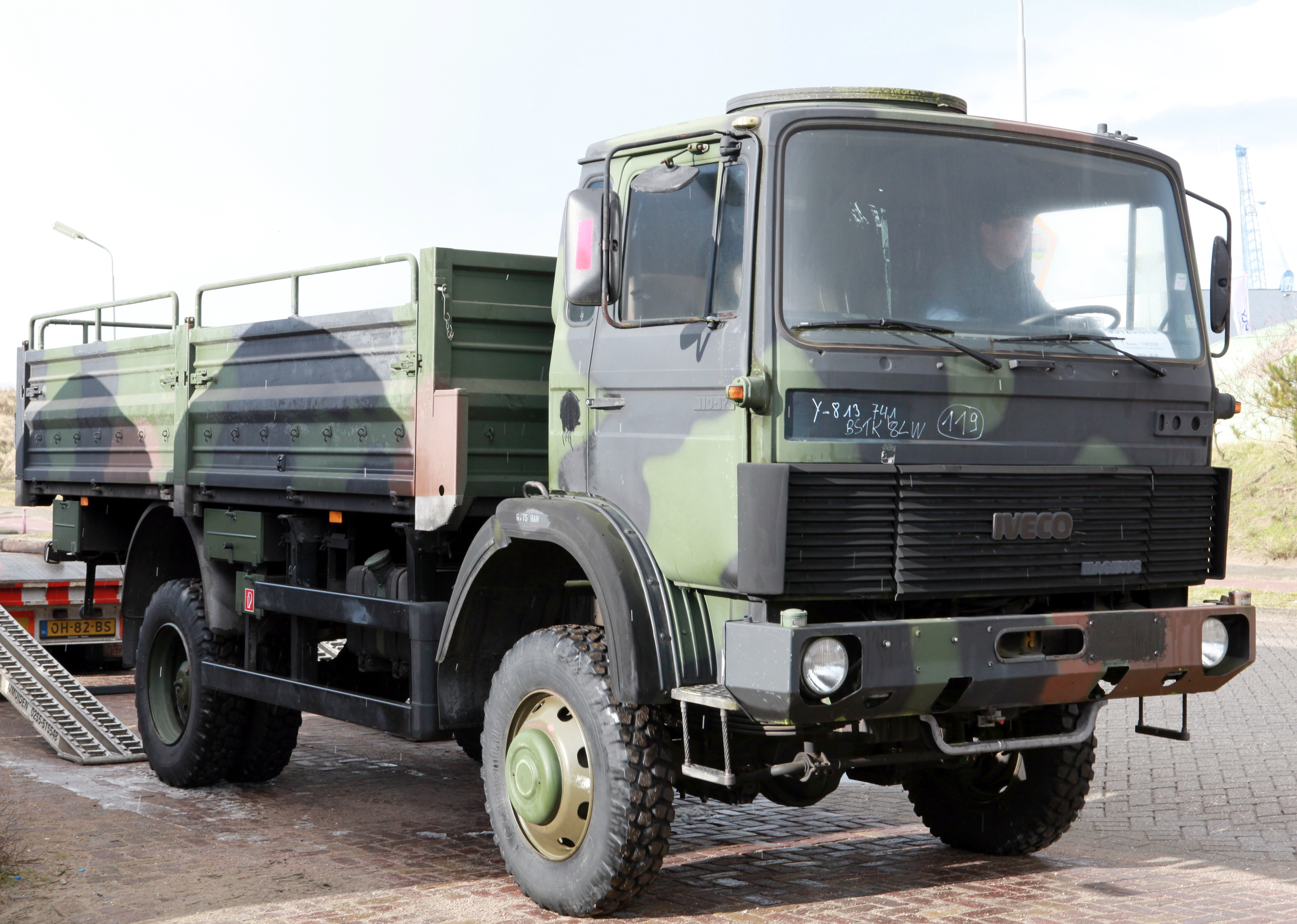 Iveco Magirus 110-17 trucks, ex. German Army.